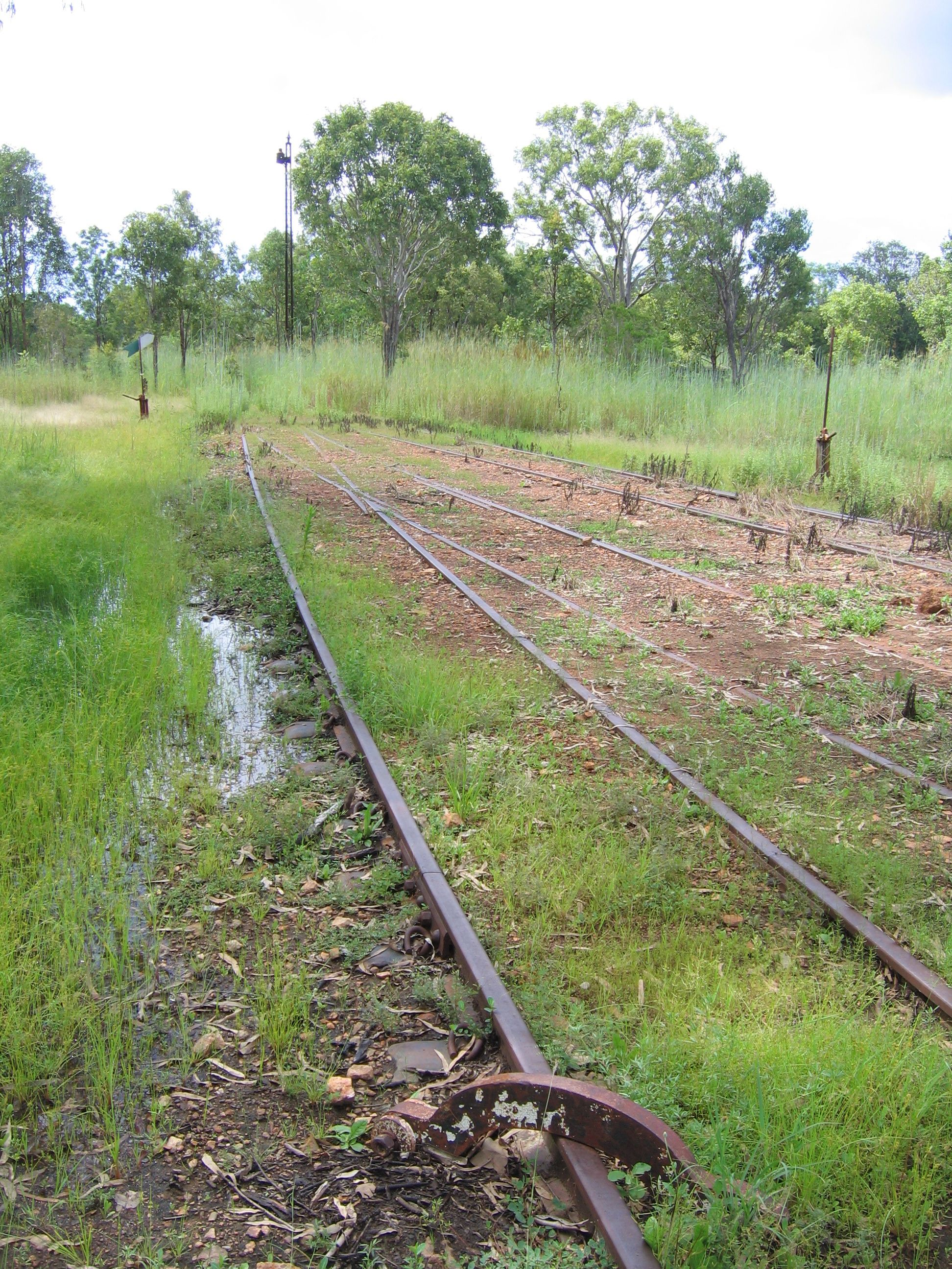 Railway Station Pine Creek, North Head